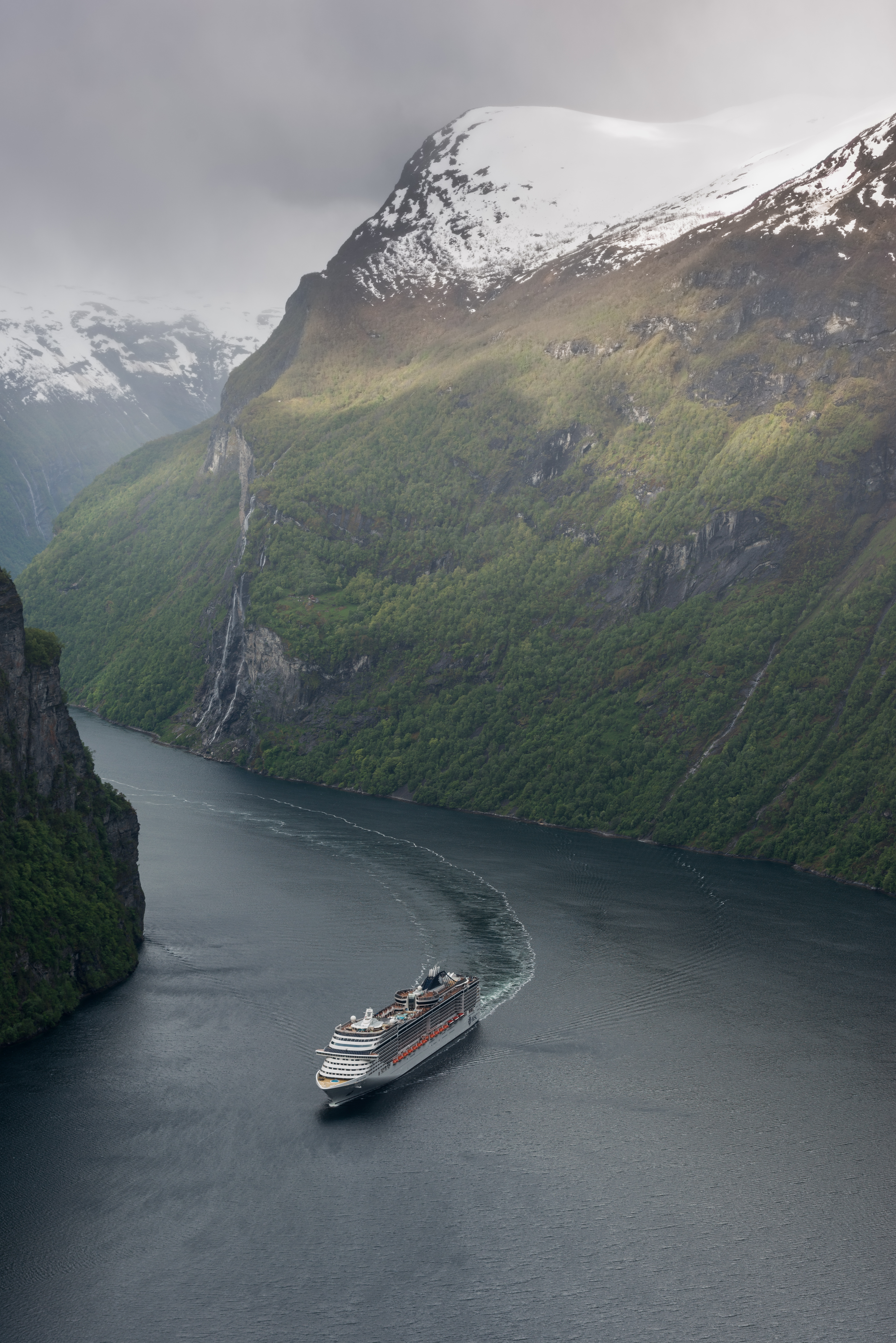 MSC Splendida in Geirangerfjorden, as seen from panoramic viewpoint